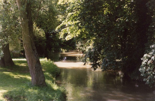 River Chater, Ketton. This is taken from the Sinc Bridge (a footbridge) looking north.